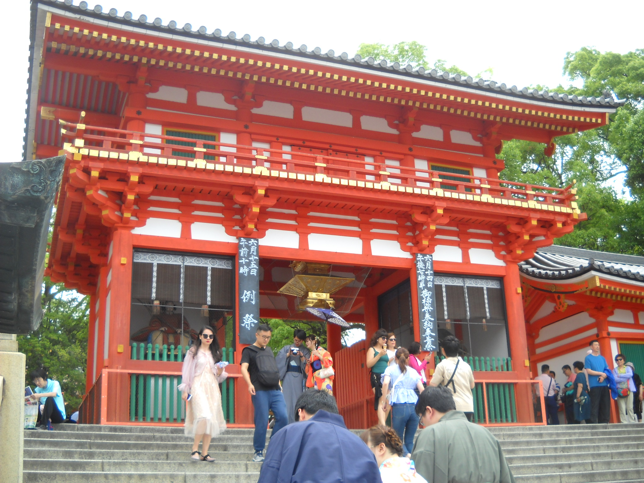 Yasaka Jinja Gate, June 5th 2019